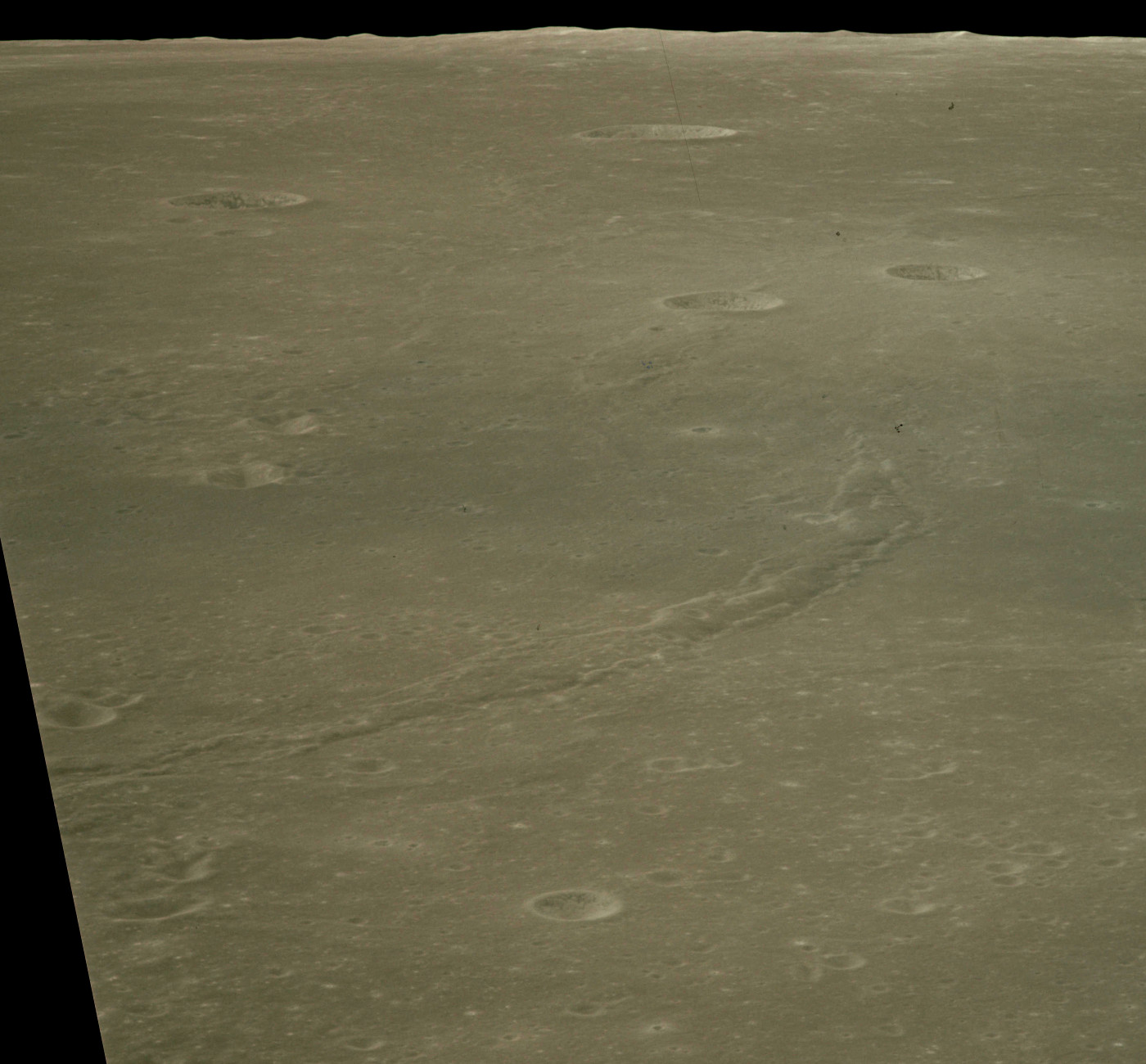 Oblique view of part of Dorsa Geikie in Mare Fecunditatis, the moon. Brightness and contrast adjusted from original, and cropped. The most distant of the four craters in the background is Anville.